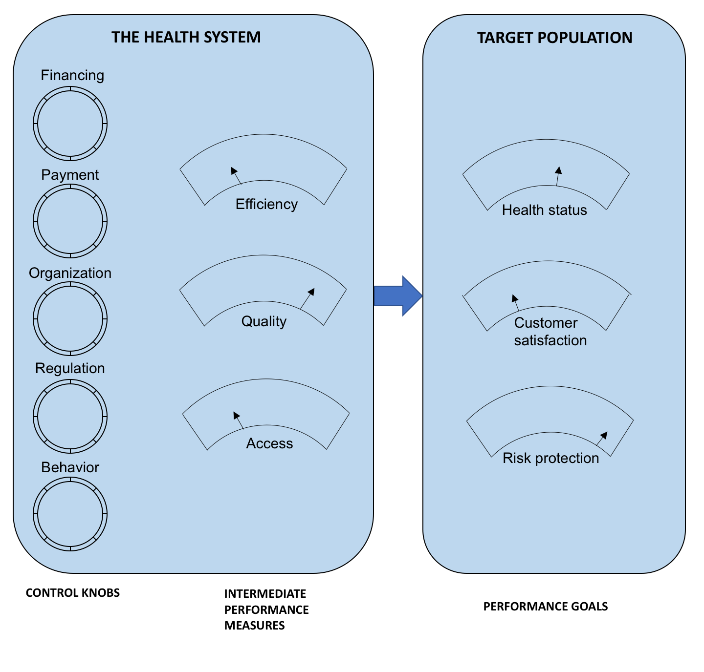 This is an illustration of the control knobs of healthcare, as described in “Getting Health Reform Right: A Guide to Improving Performance and Equity,” by Marc Roberts, William Hsiao, Peter Berman, and Michael Reich.